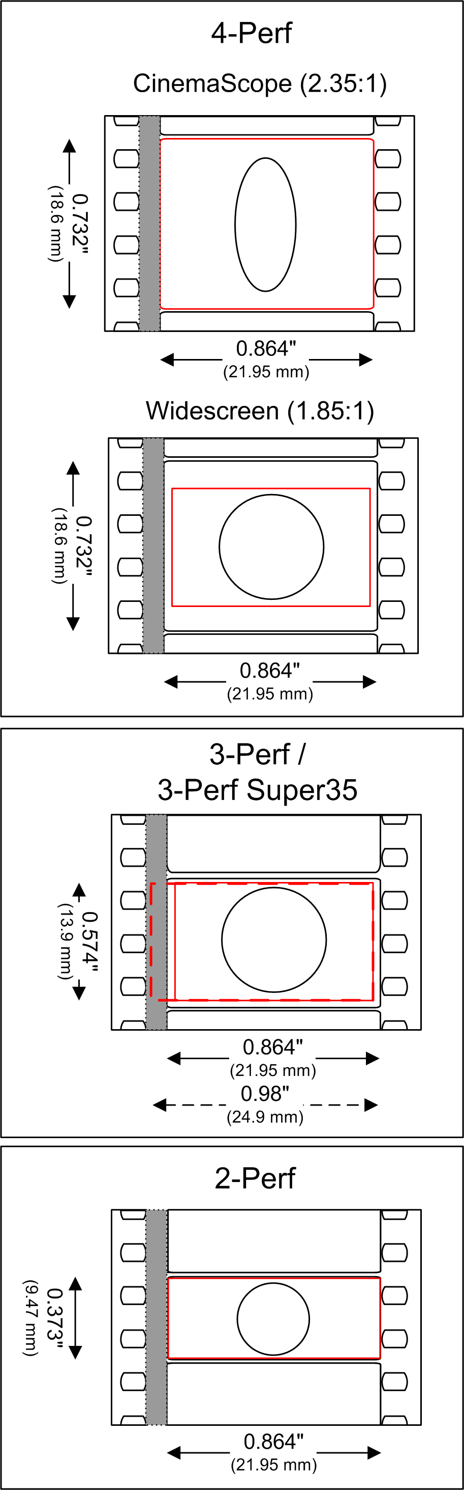 A comparison of 4 perf, 3 perf and 2 perf film formats. By myself (Max Smith) in Visio. Released into the public domain. A credit would be nice.